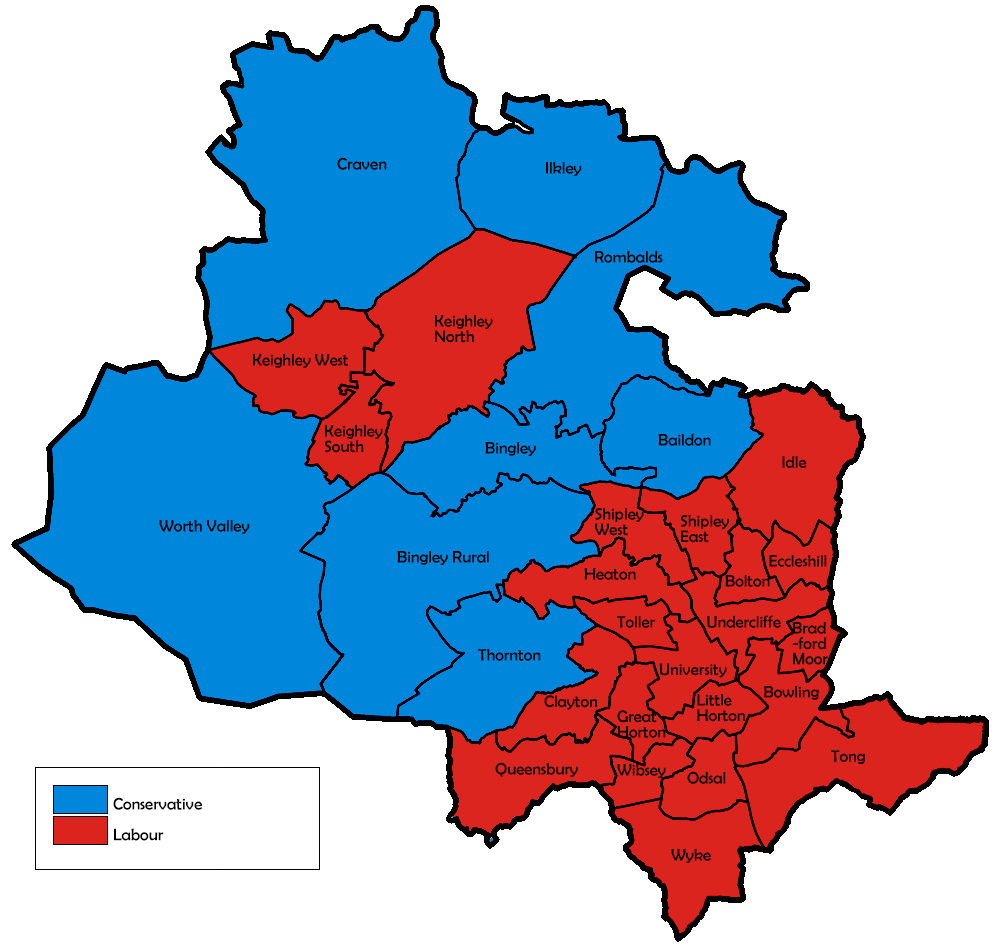 Ward map of Bradford Council with political colouring for the 1990 election.